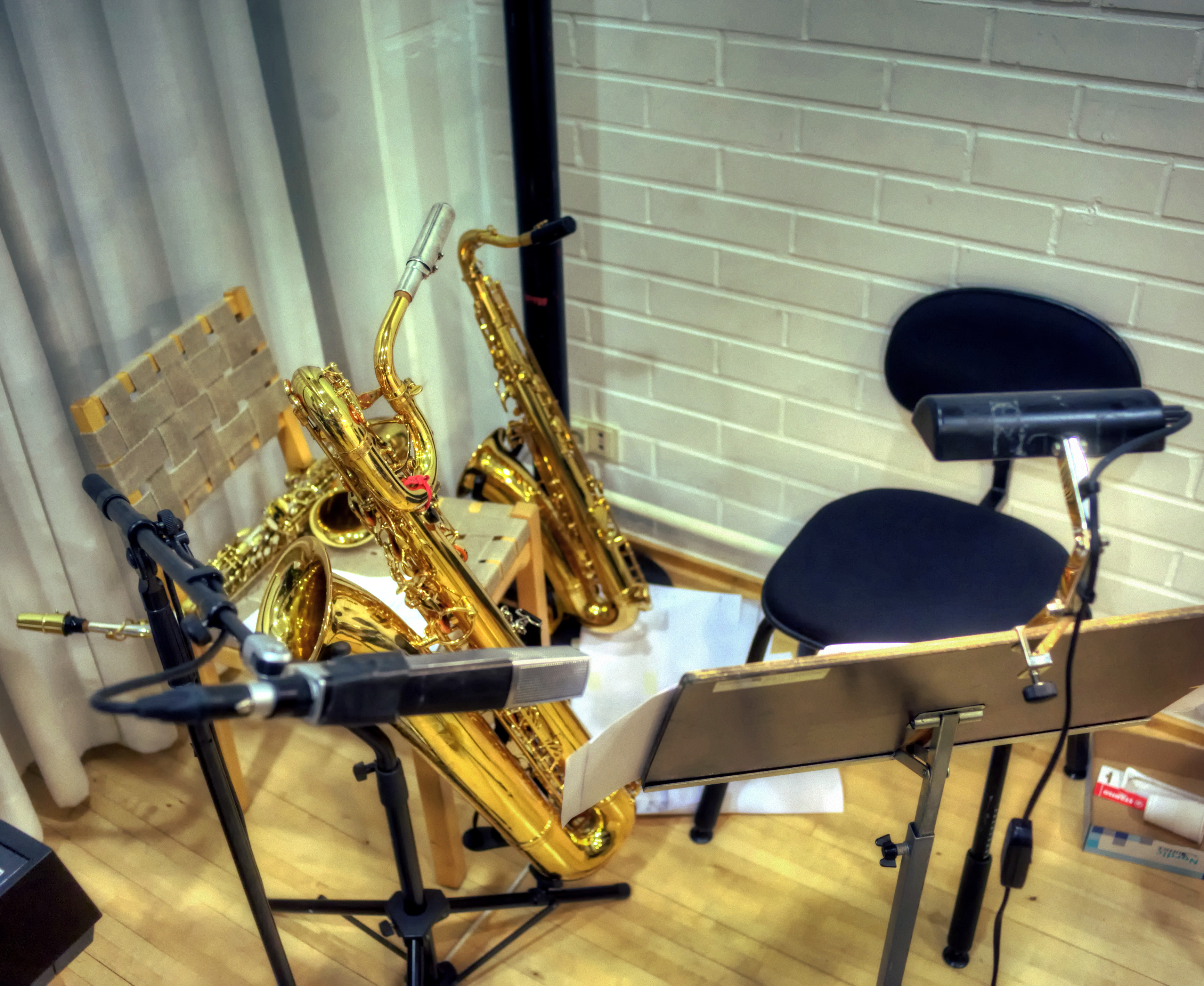 Saxes in Imatra